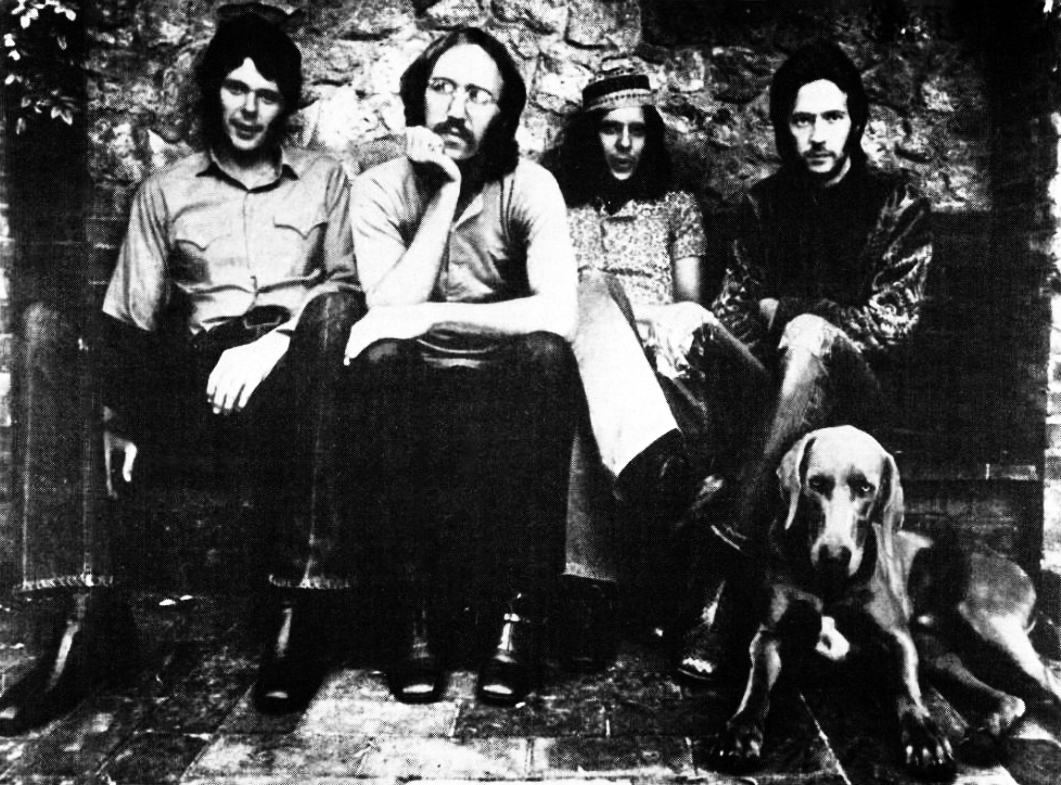 Trade ad for Derek and the Dominos's single "Bell Bottom Blues".To better adapt it to his respective Wikipedia article, the ad was cropped and cleaned in a graphics editing program. The original can be viewed at the source below.